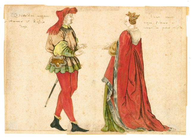 Miniature of Vytautas and Anna, rulers of the Grand Duchy of Lithuania